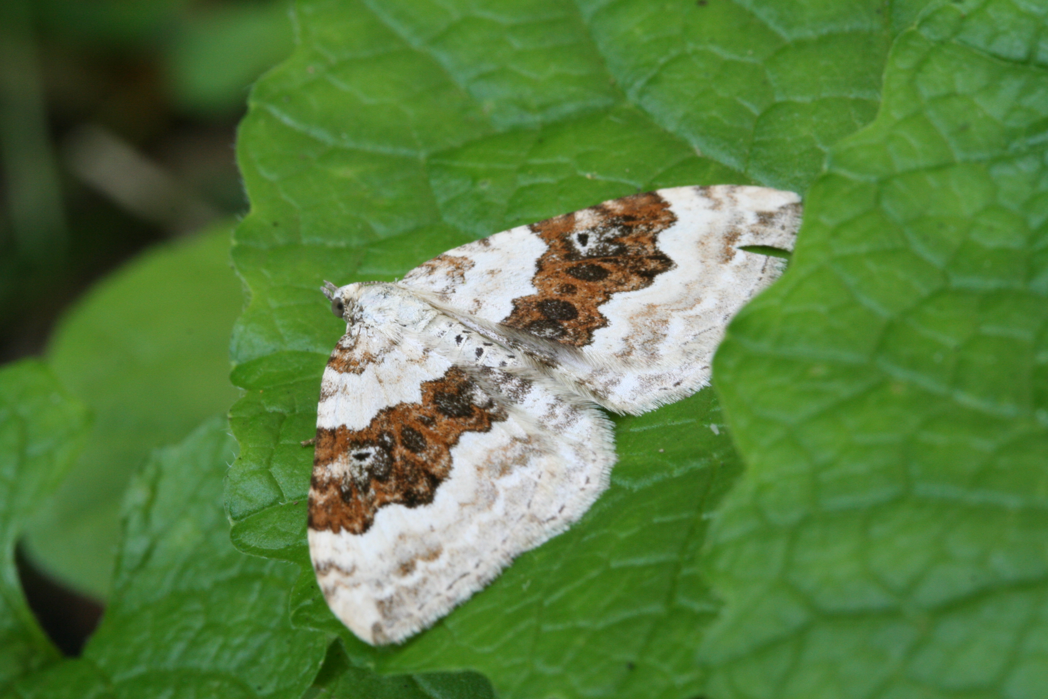 Xanthorhoe_montanata 7 June 2006 IJmuiden, the Netherlands